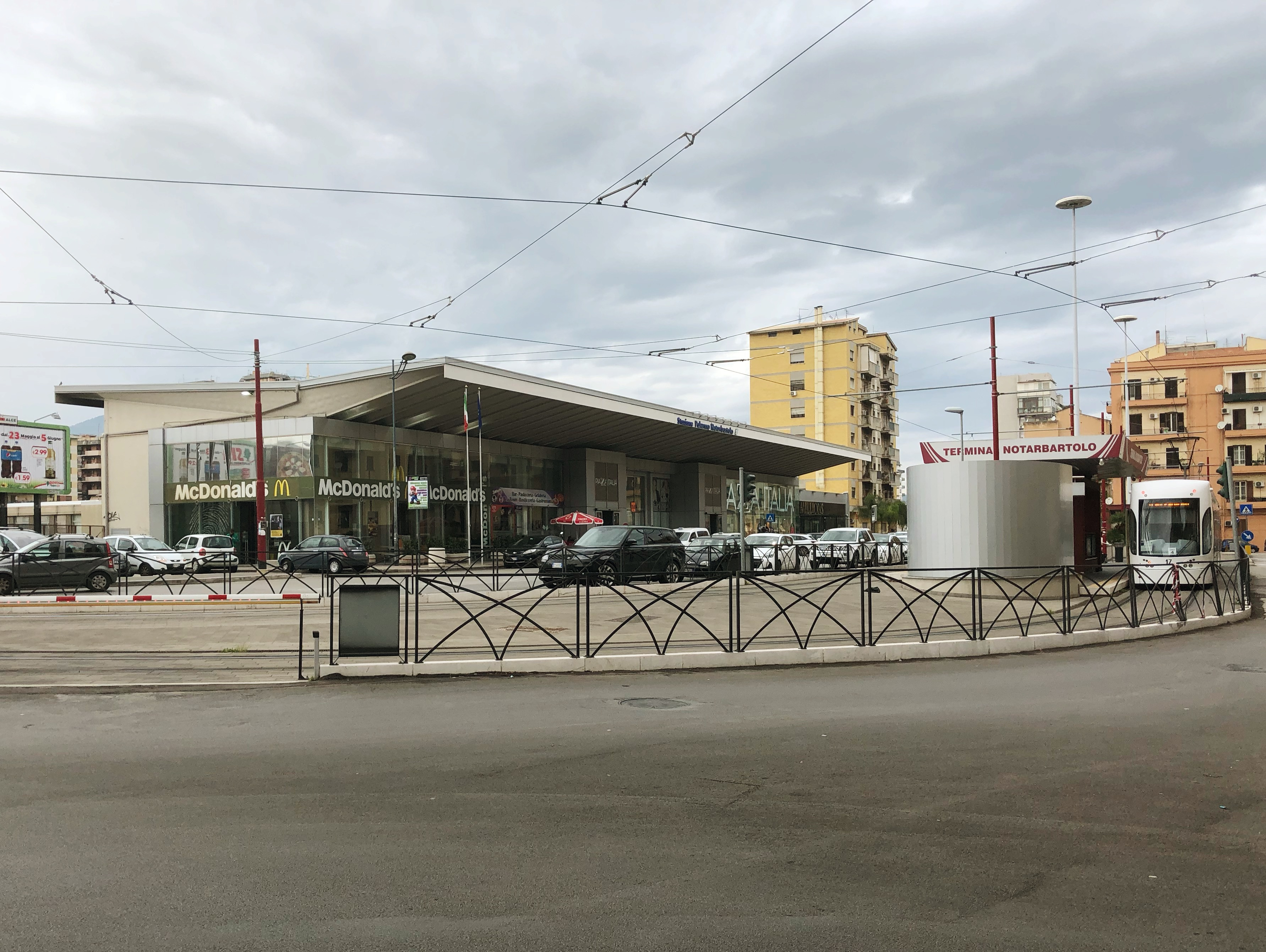 Notarbartolo Station Palermo